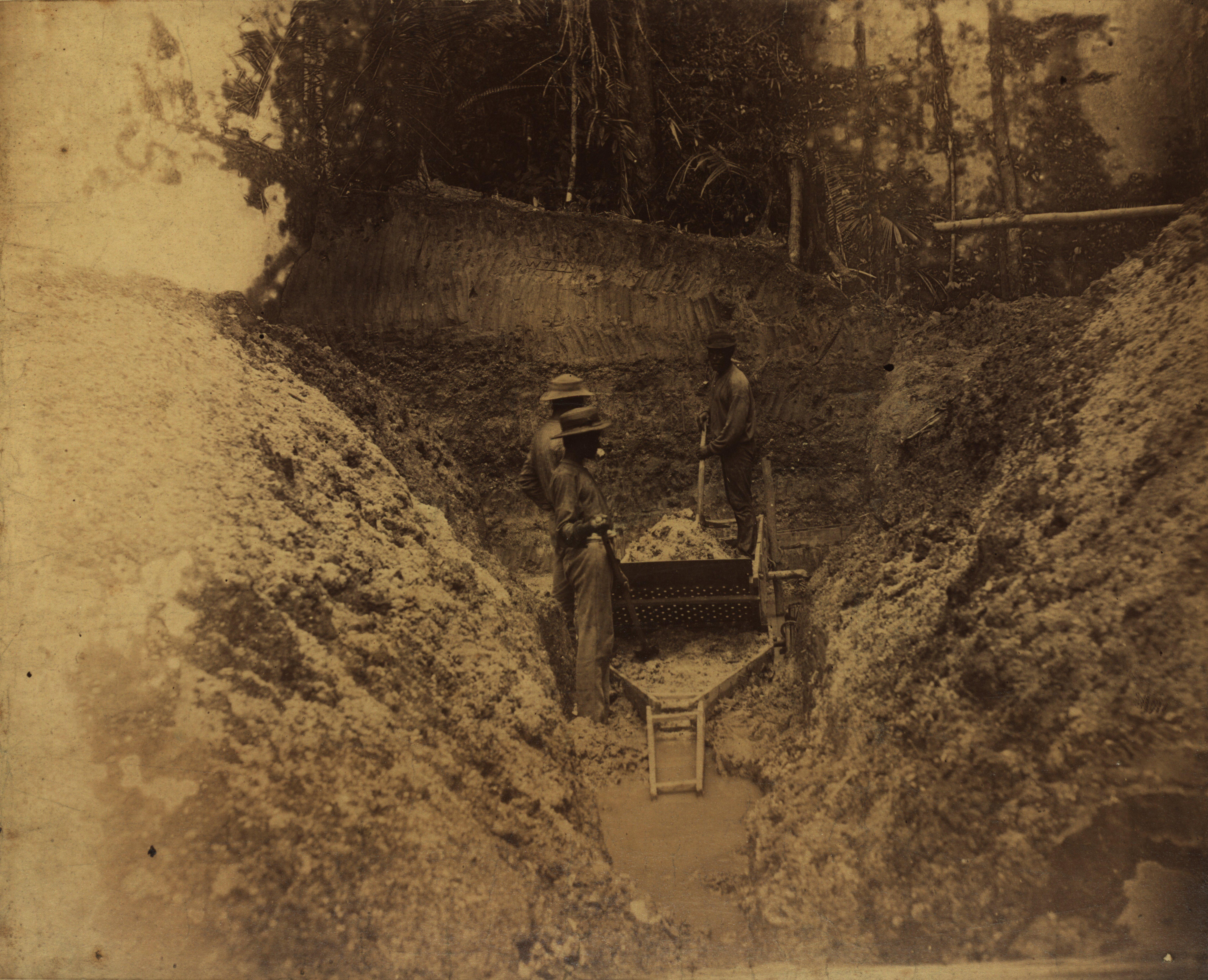 Washing of mud in Surinam, possibly in search of gold.